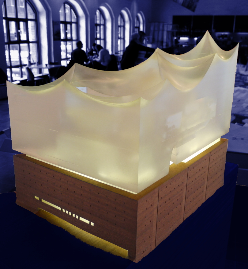 Photo of model of the Elbphilharmonia in Hamburg, Germany.